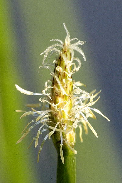 Picture taken in Commanster, Belgian High Ardennes . Species: Eleocharis palustris